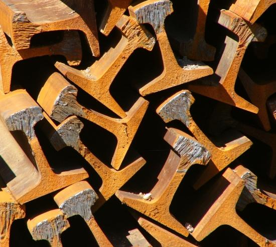 Rusty rails